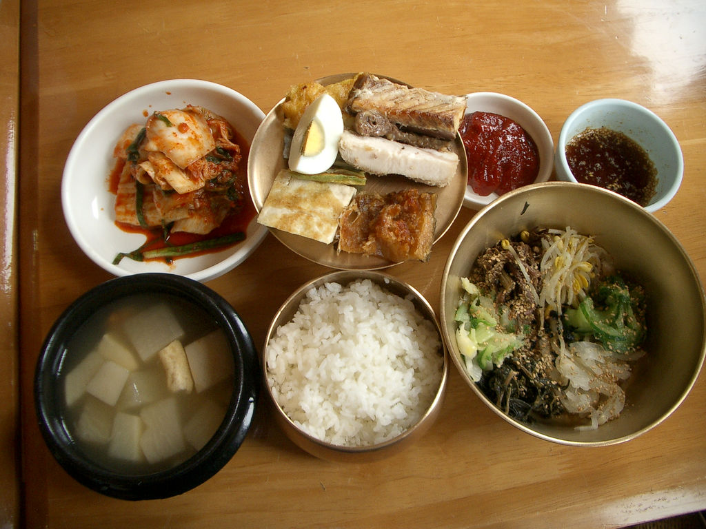 Heotjesabab at a restaurant in Andong, South Korea 대한민국 안동시의 한 음식점에서 헛제사밥